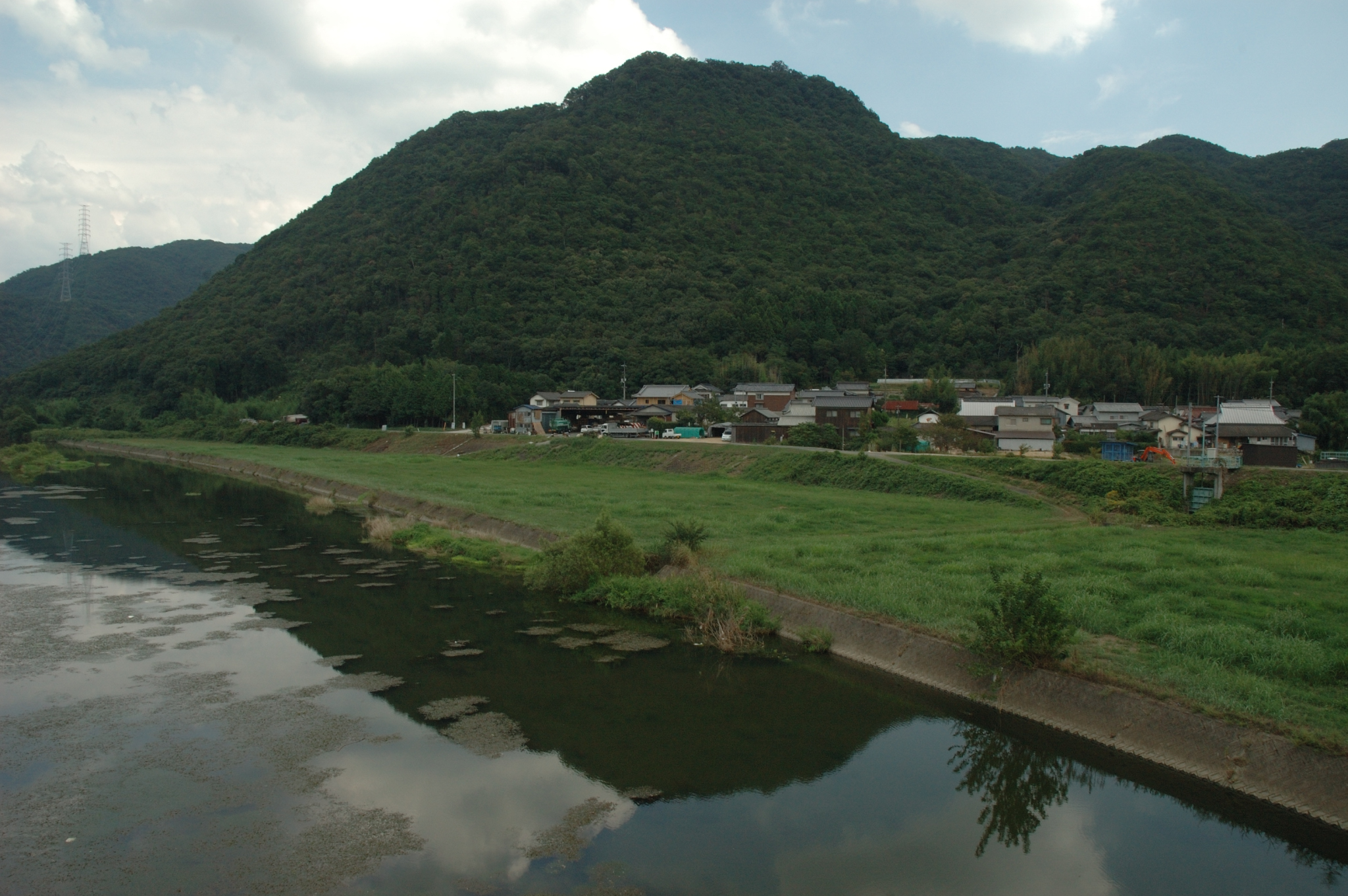 Sarukake castle mountain and Oda river